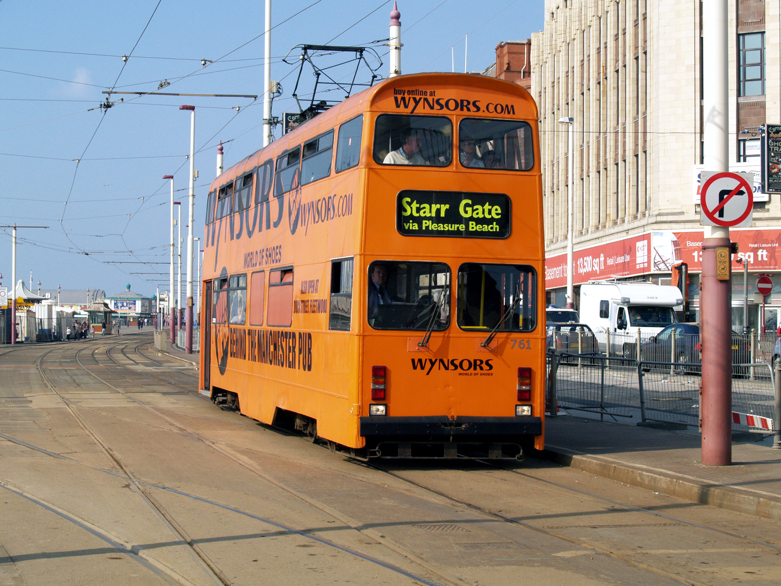 Blackpool Transport Services Limited car number 761, a Blackpool Borough Council Transport ?Jubilee? double deck bogie car with Blackpool Borough Council Transport 5? 6? wheelbase equal wheel bogies, two English Electric Company Limited 305 57 horse power motors and Westinghouse Chopper controller with a Blackpool Borough Council Transport 56/48 seat front entrance body built 1979 at the Tower tram station, Blackpool with a Fleetwood Ferry to Starr Gate service. Friday 17th April 2009